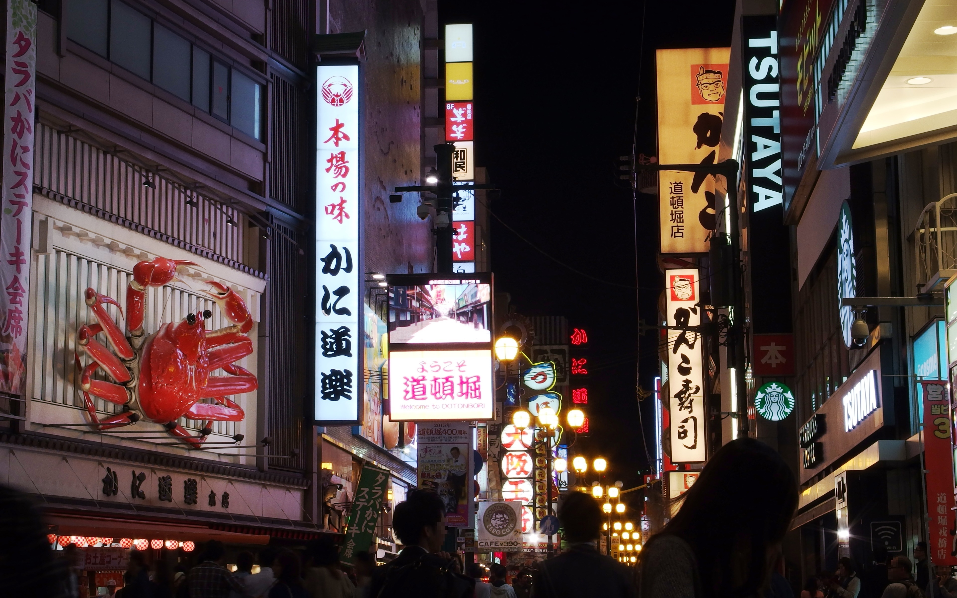 Dōtonbori in Osaka, Osaka Prefecture, Japan